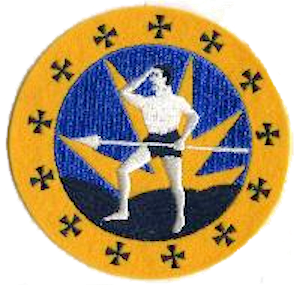 Emblem of the 1st Bombardment Squadron (World War II)